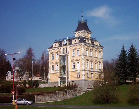 Aš, Town Hall